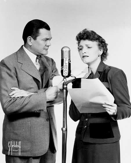 Photo of Hugh Studebaker and Marjorie Hannan in their roles on the radio show Bachelor's Children.